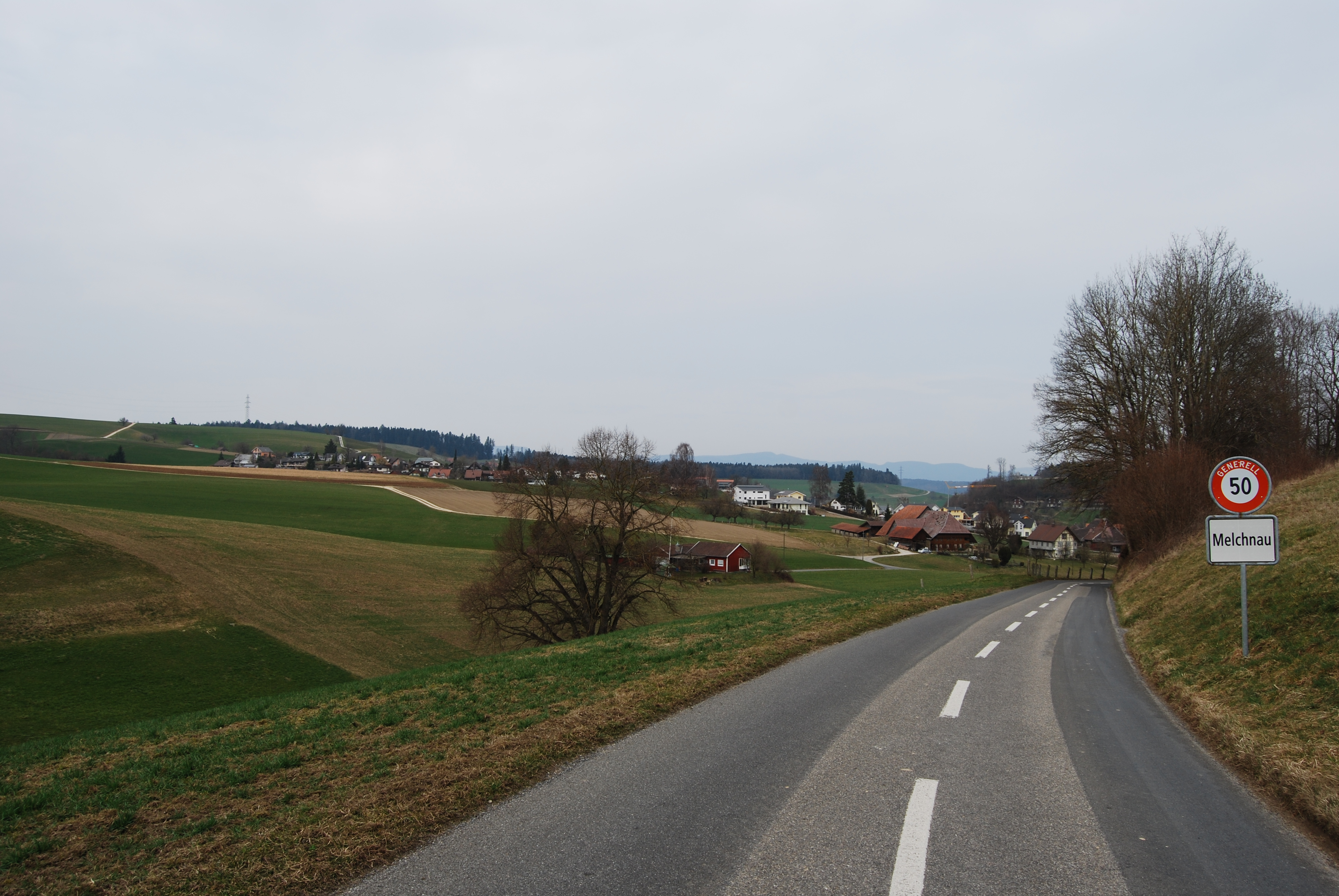 Melchnau, canton of Bern, SwitzerlandEsperanto: Melchnau, Kantono Berno, Svislando